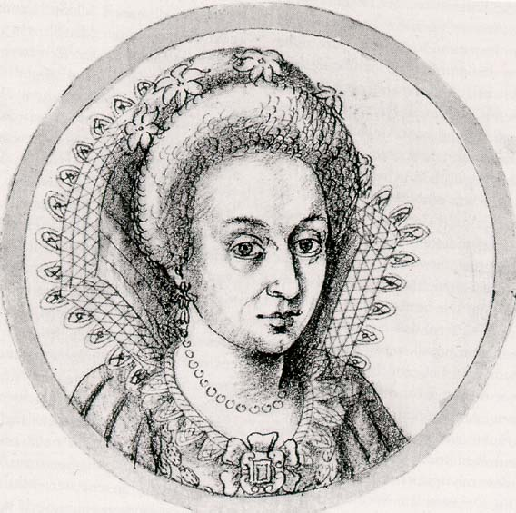 Barbara Sophia of Brandenburg